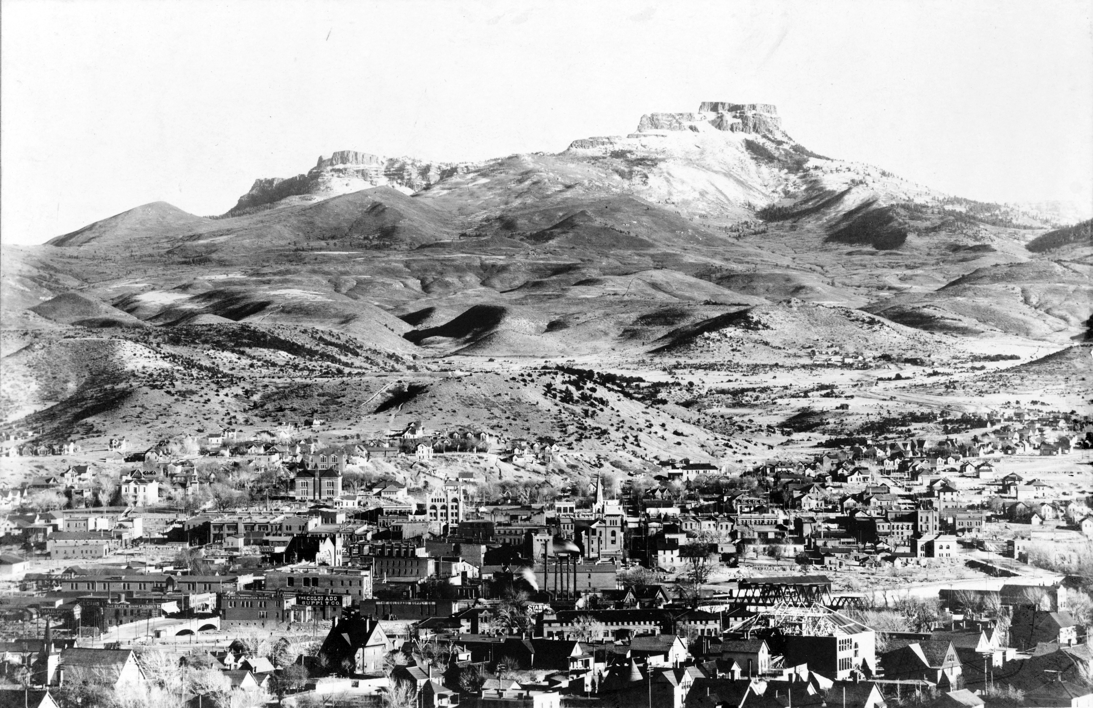 Business section of Trinidad, Colorado with mountains in the background, circa 1907. Photo by Arthur Russell Allen.